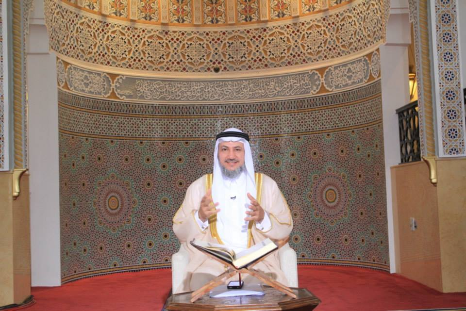 Dr Mohammed Alkobaisi on the set of Understanding Islam Ramadan 1434 - 2013